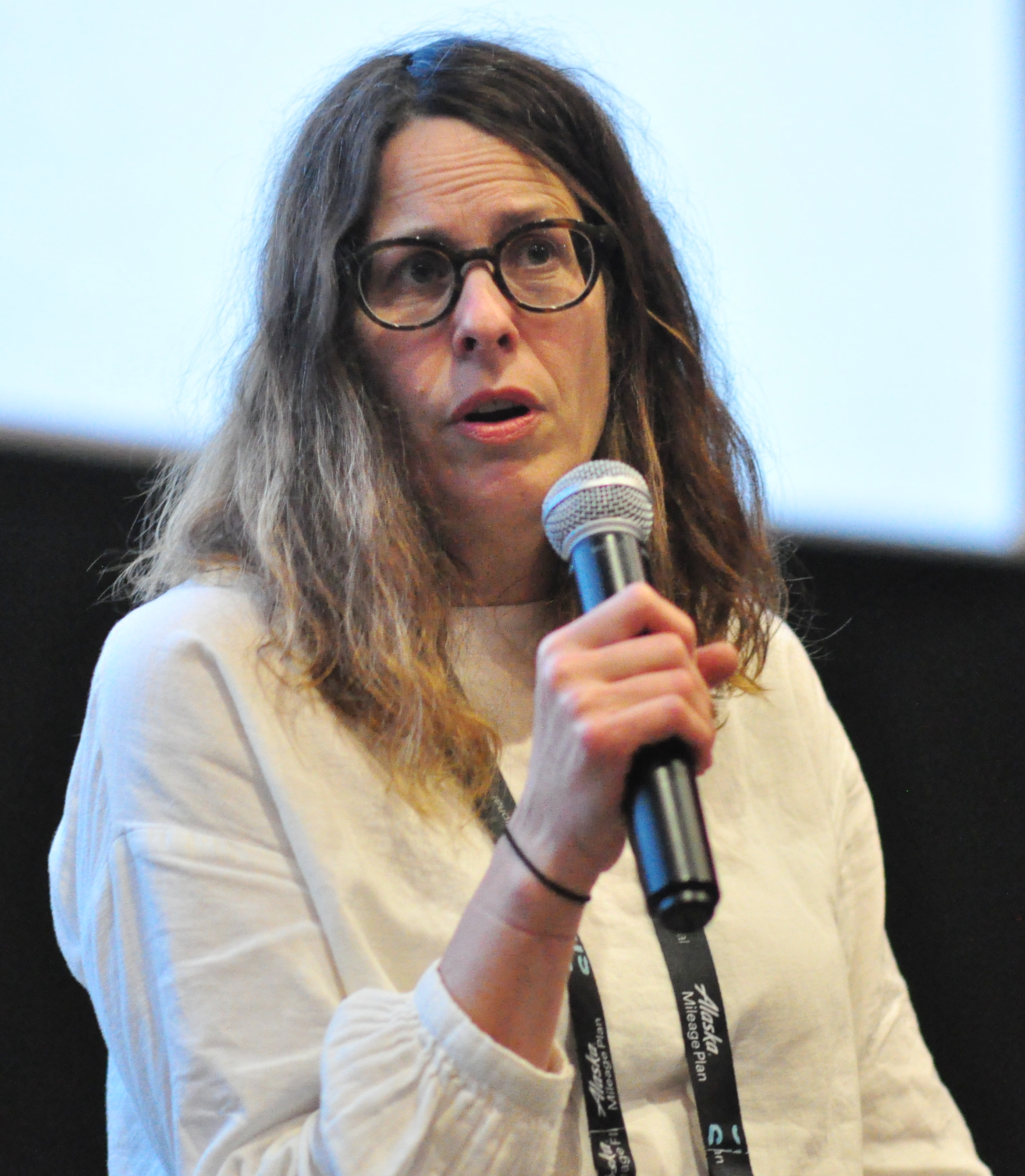 Anne Rosellini presenting her film Leave No Trace at the Seattle International Film Festival 2018, Seattle, Washington.